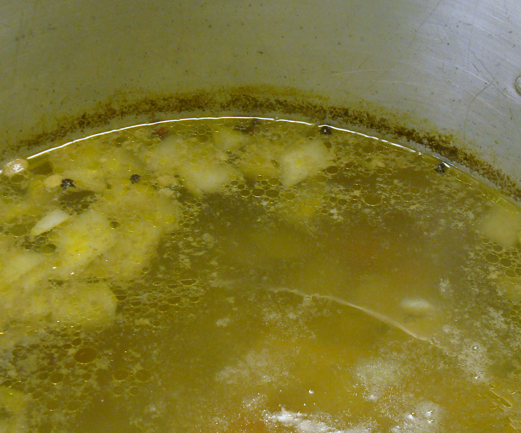 Broth